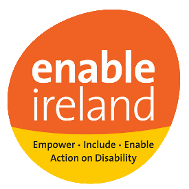 The logo of Enable Ireland which is a charity organisation that provides free services to children and adults with disabilities and their families in Ireland